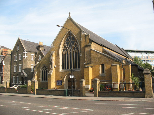 St Peter's church, Woolwich A Catholic church near the town centre.